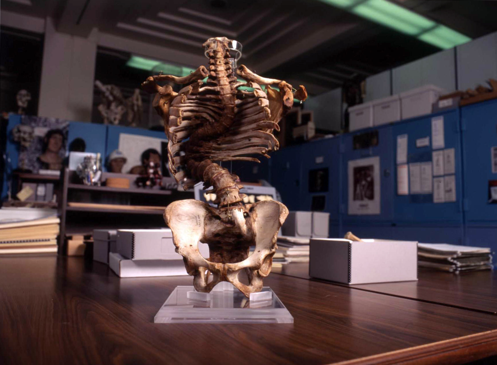 Lobby photo: Skeletal specimen of adult female showing kyphoscoliosis (curvature of the spine), 1830-1860. Photographer: Kikel, V.R. Exhibited in the lobby of the museum, 1995